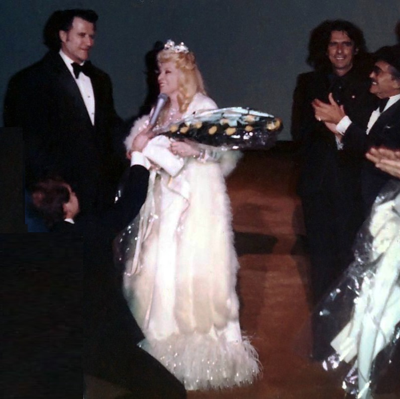 Paul Novak, Mae West (giving a speech after the opening of Sextette), Alice Cooper & Harry E. Weiss & (kneeling) Dom De Luise, as released by image creator Lars Jacob Prod;Place: Cinerama Dome, 6360 Sunset Boulevard, Los Angeles, California